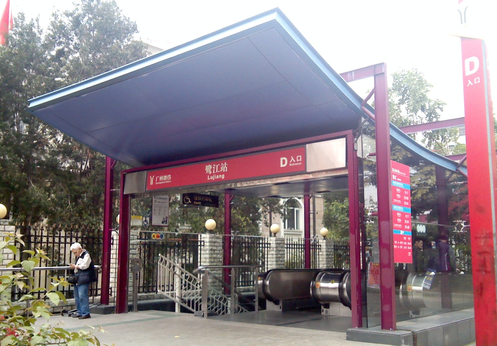 鹭江站D出入口